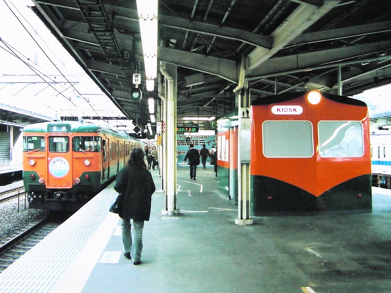 Fujisawa Station